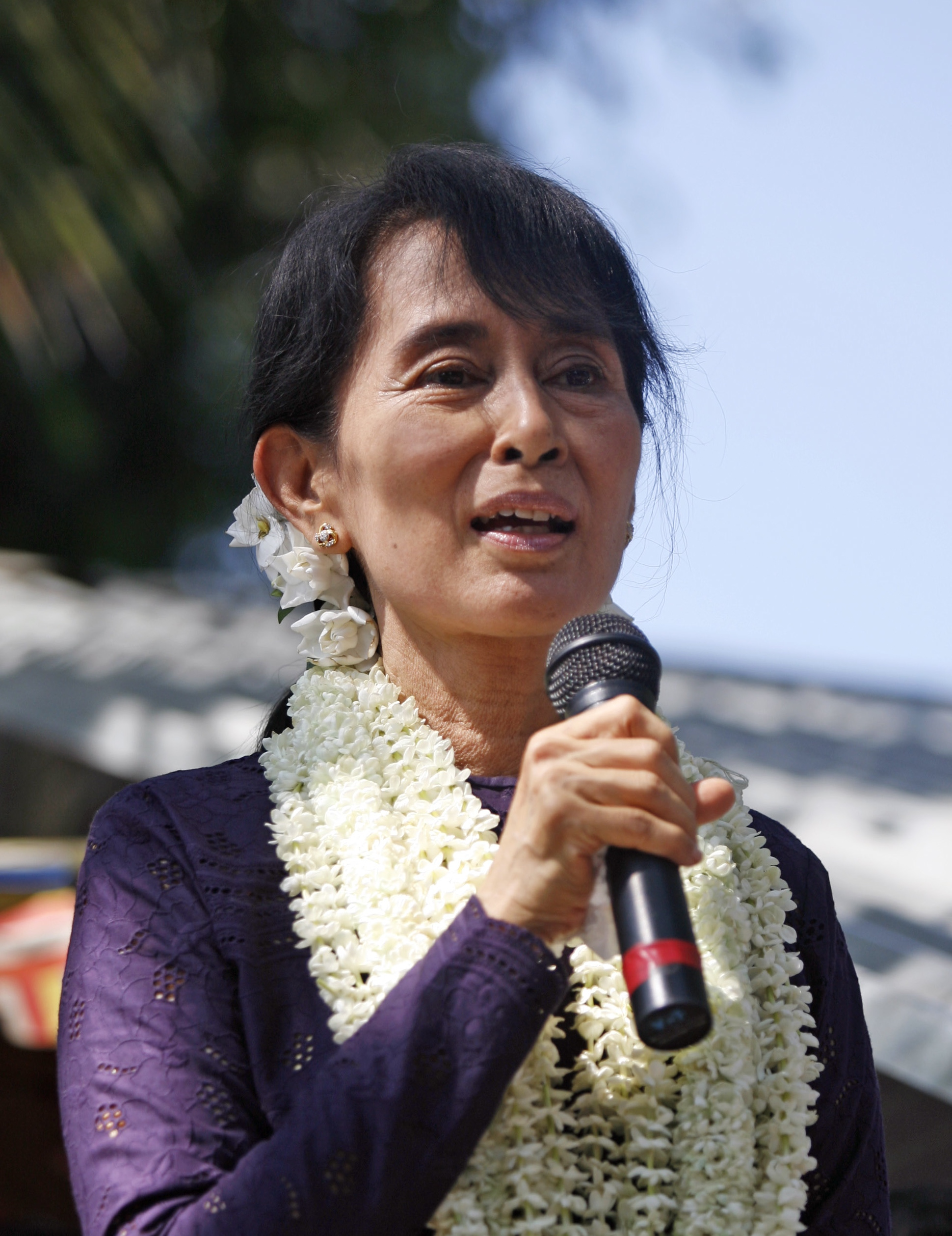 Aung San Suu Kyi gives speech to supporters at Hlaing Thar Yar Township in Yangon, Myanmar on 17 November 2011. မြန်မာဘာသာ: ဒေါ်အောင်ဆန်းစုကြည်